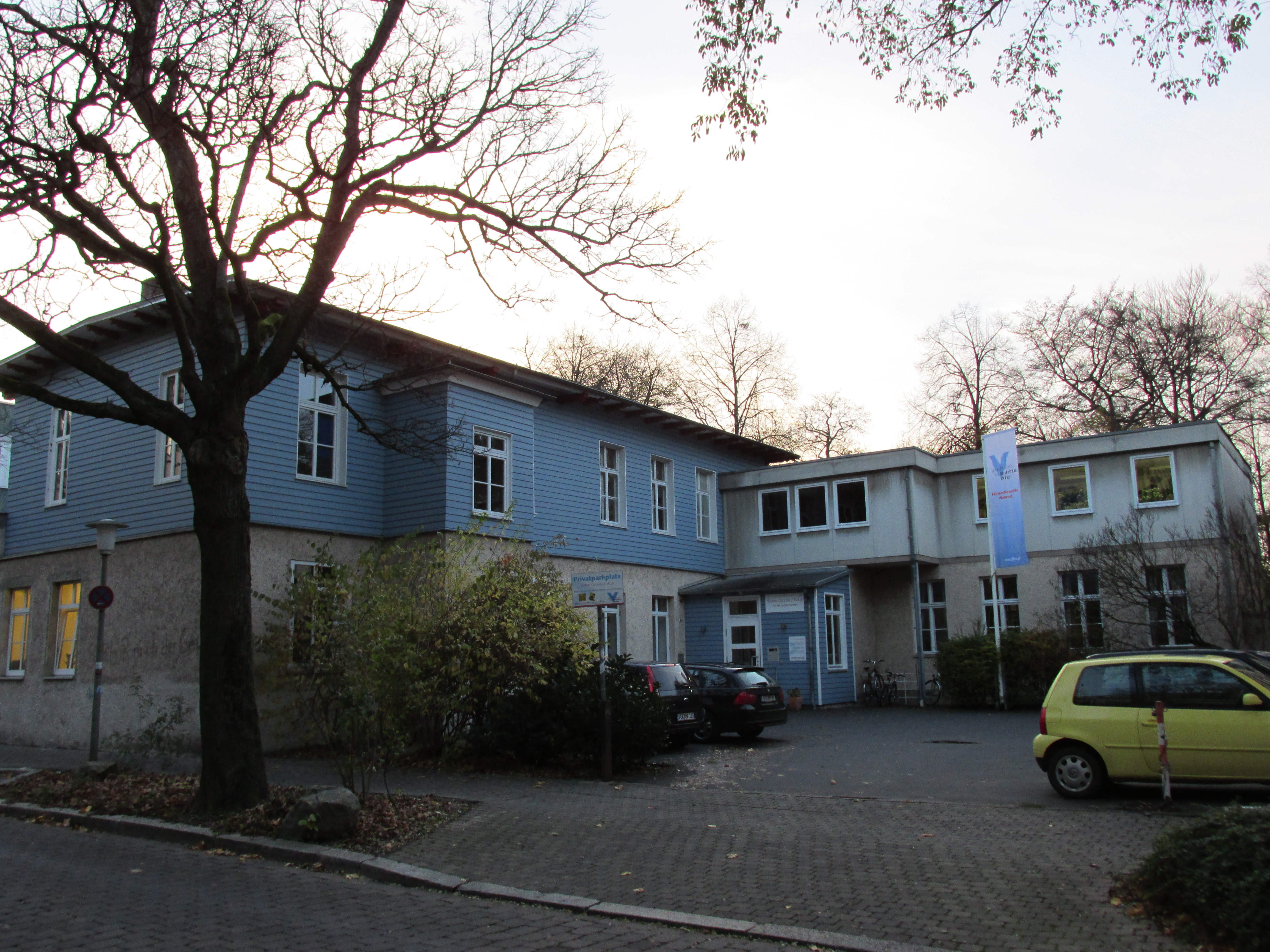 Office of Society for Threatened Peoples International, Göttingen, Germany